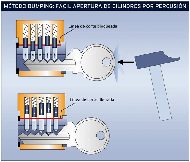 Bumping method for open doors without forzing